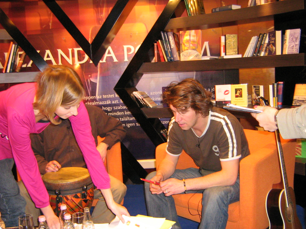 Tibor Kiss the frontman of the rock band "Quimby"